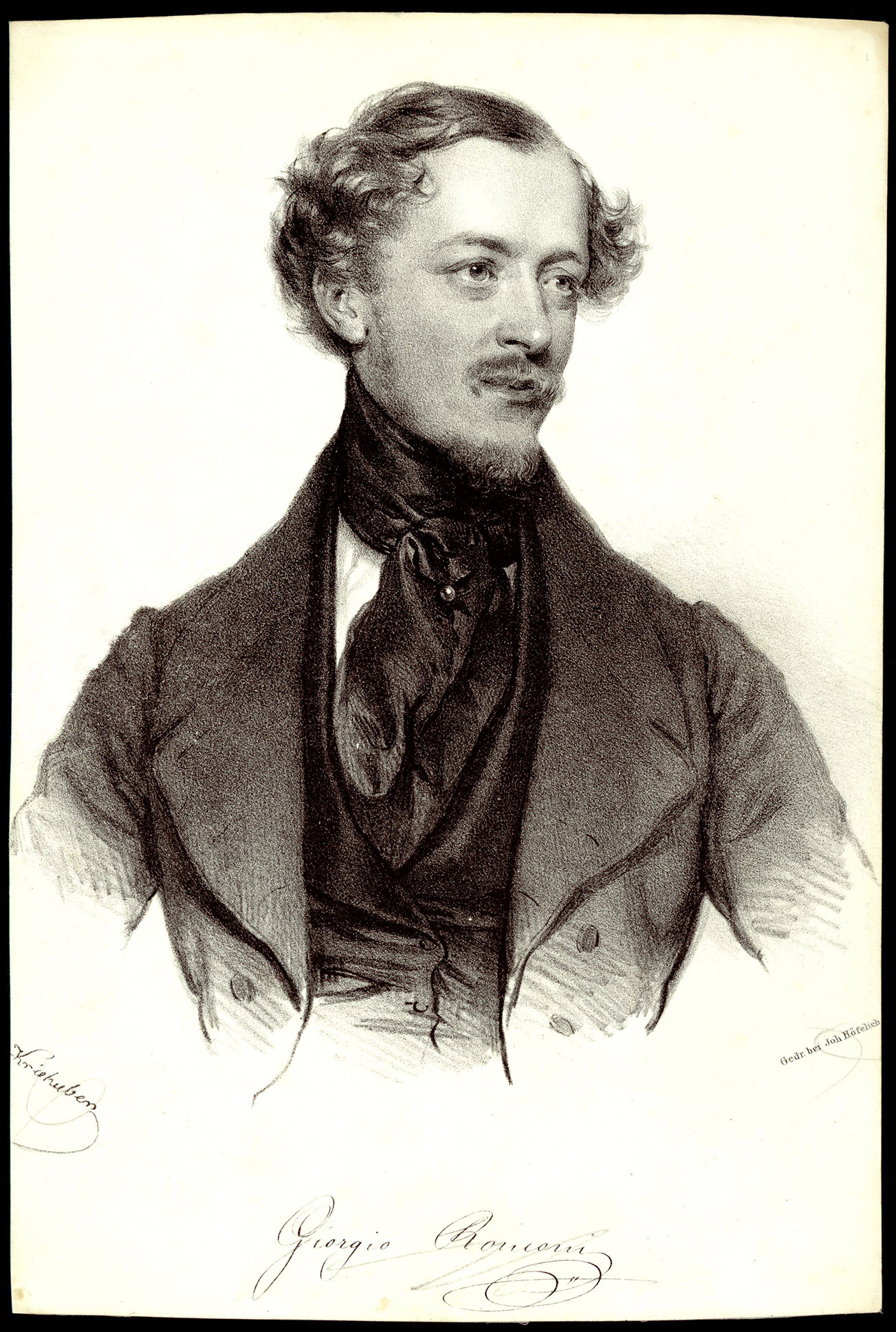 Portrait of Giorgio Ronconi, baritone (1810-1890), 1840.